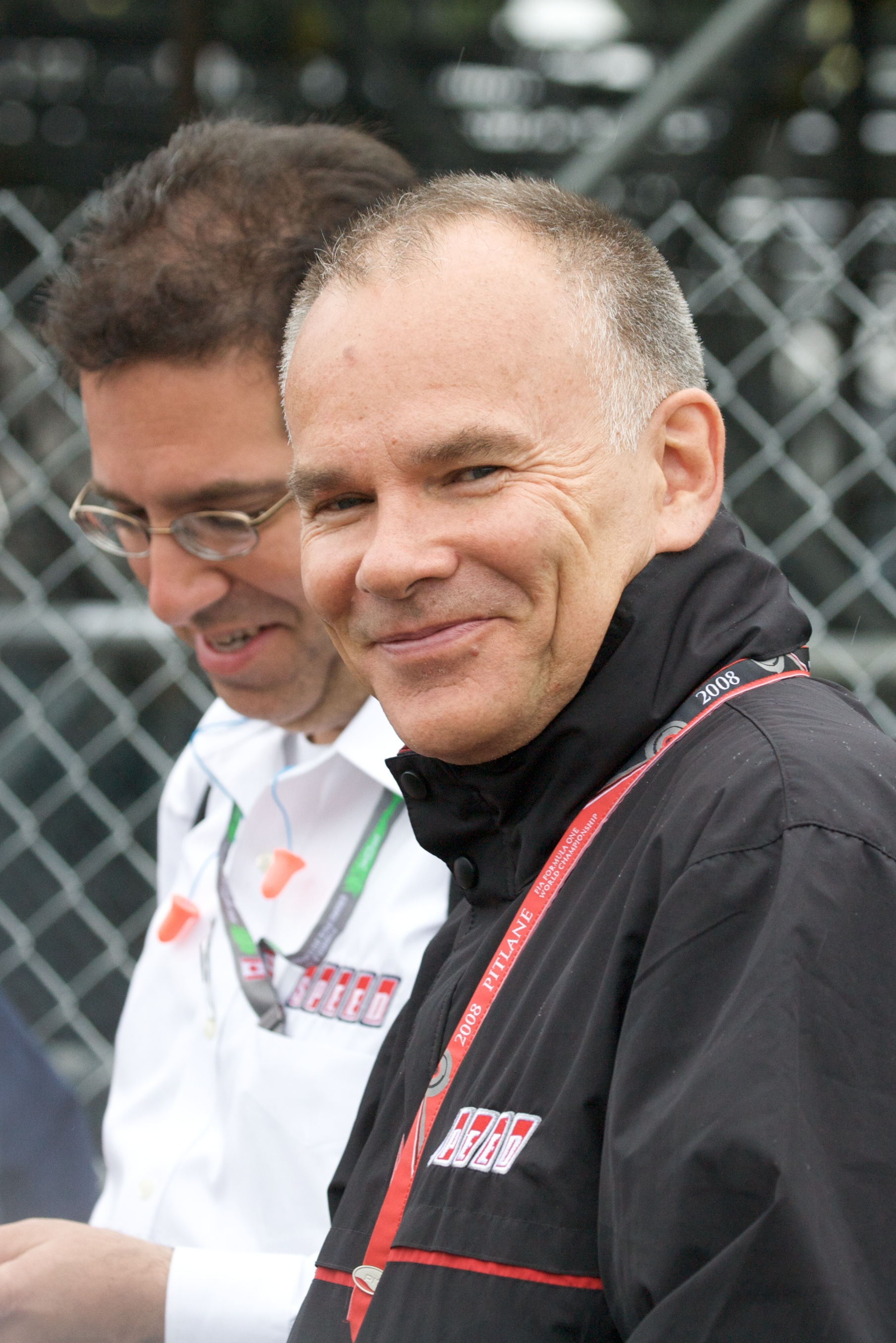 Formula One television presenter Peter Windsor at the 2008 Canadian Grand Prix.